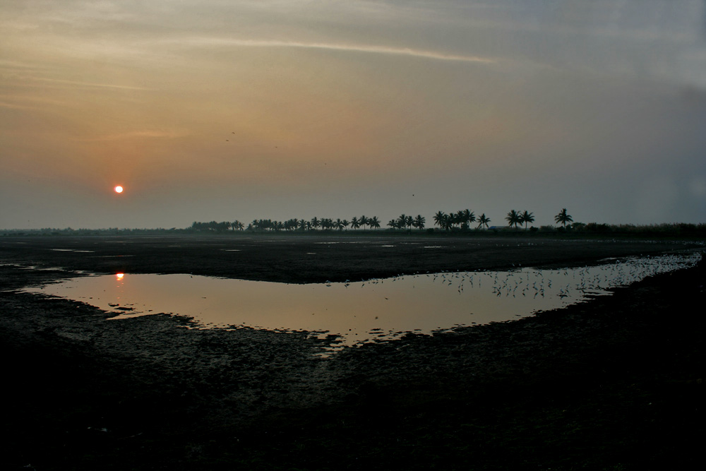 Sunset with Egrets, Grey Herons, Painted Storks & Black-headed Ibises gathering in Kolleru, Andhra Pradesh, India.